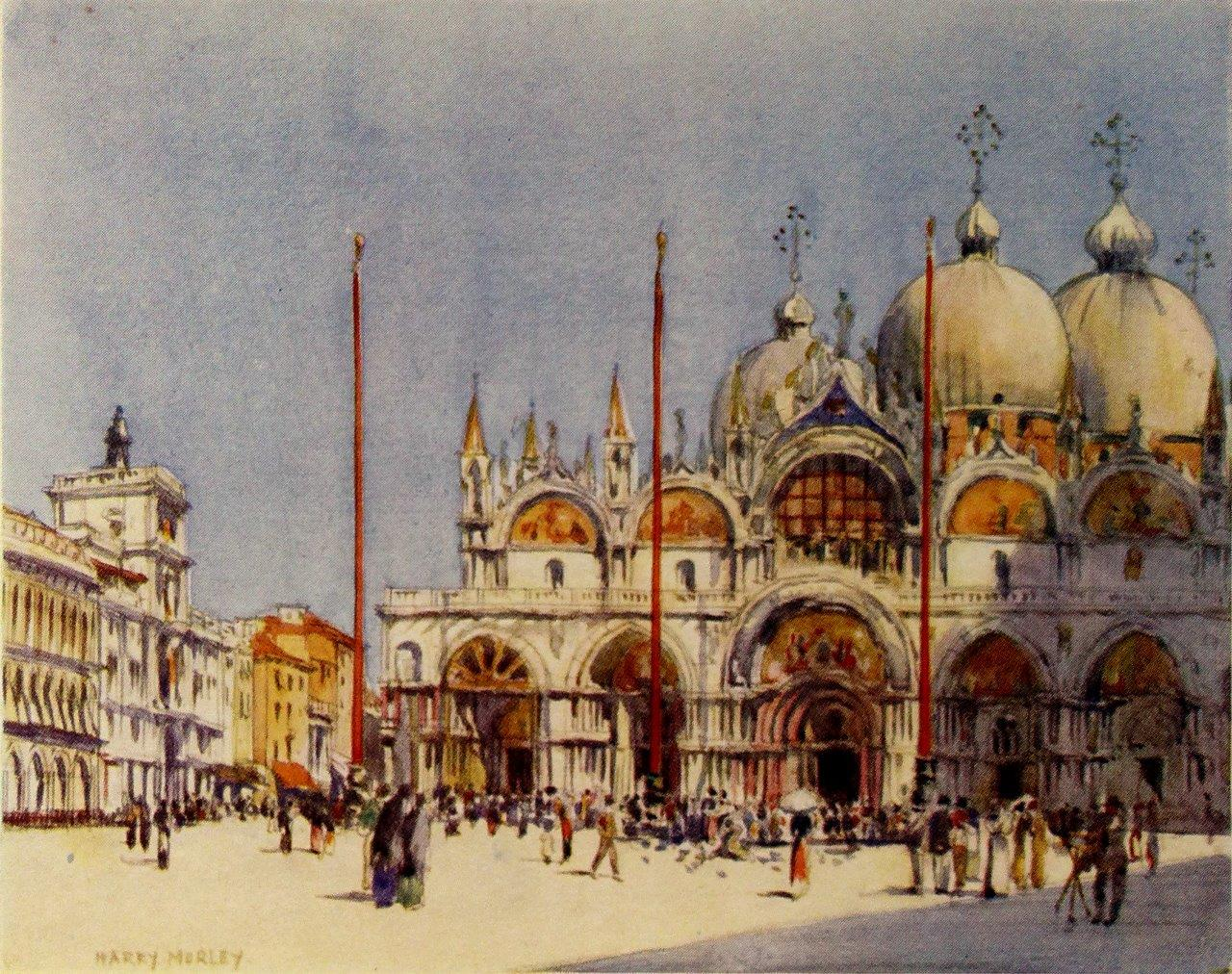 Harry Morley's watercolour St Marks from the Piazza for E V Lucas's A Wanderer in Venice